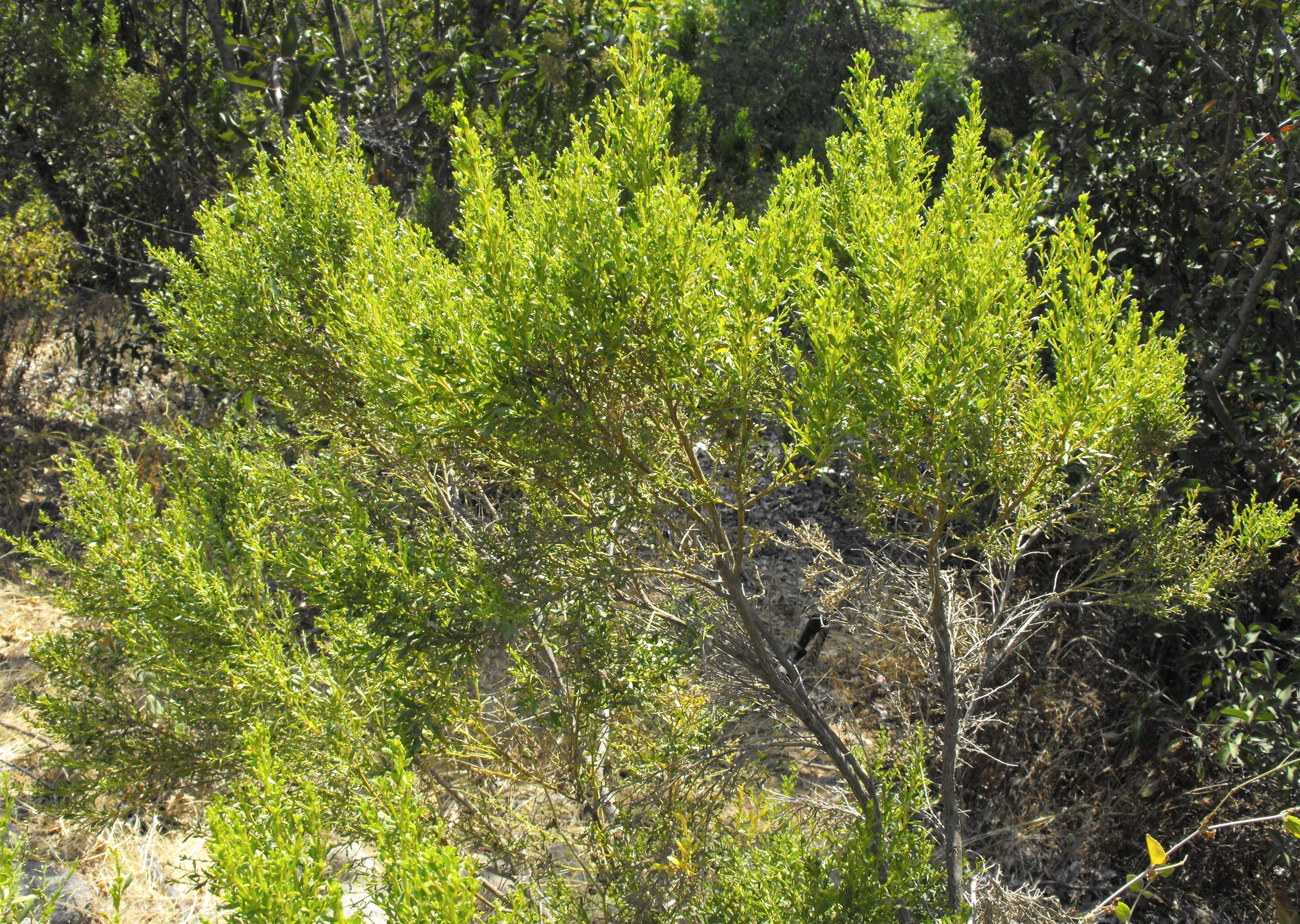 Baccharis sarothroides — broom baccharis, desertbroom. Specimen growing at the San Diego Zoo Safari Park (formerly the San Diego Wild Animal Park), in Escondido, California.